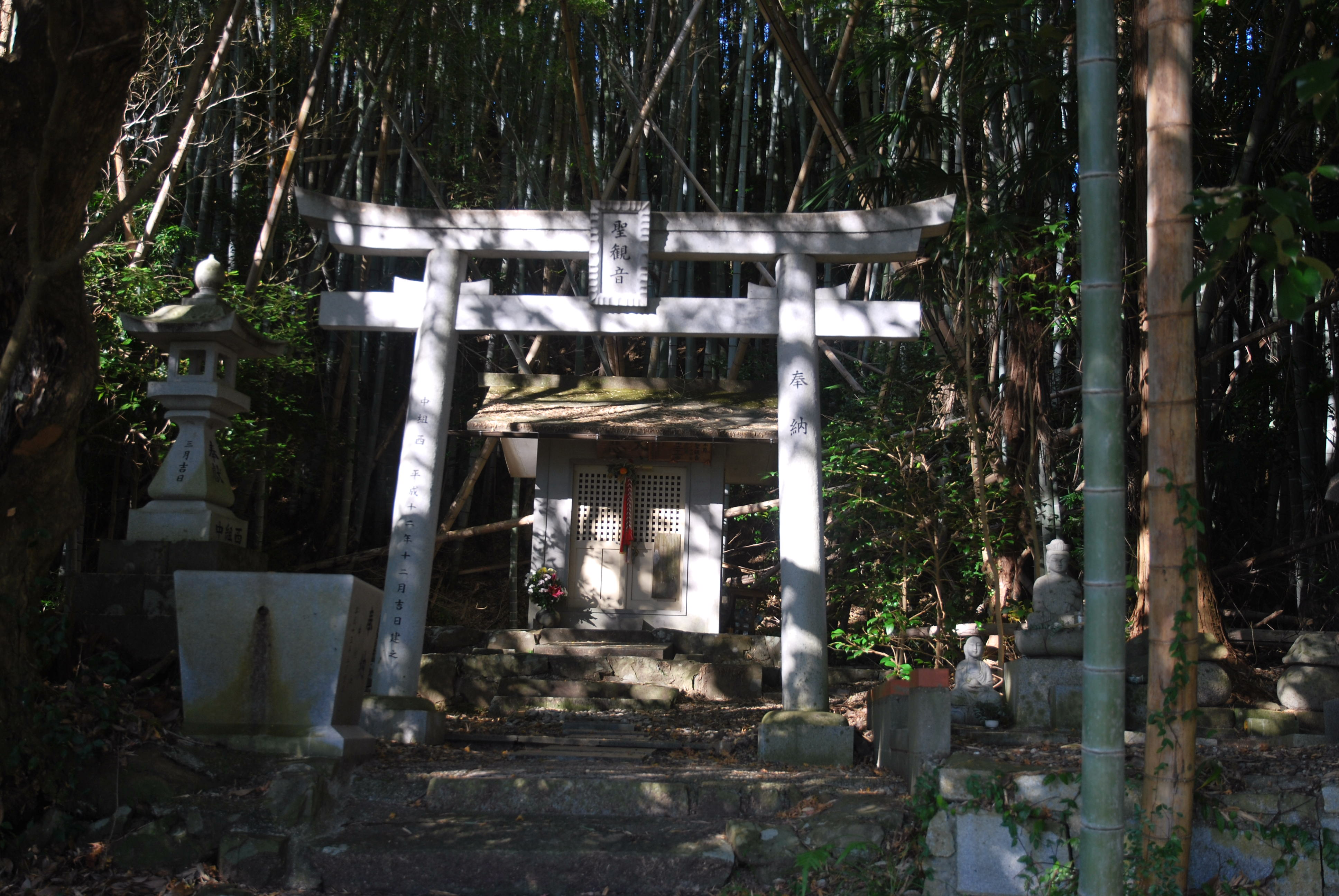 Nakatani-dō